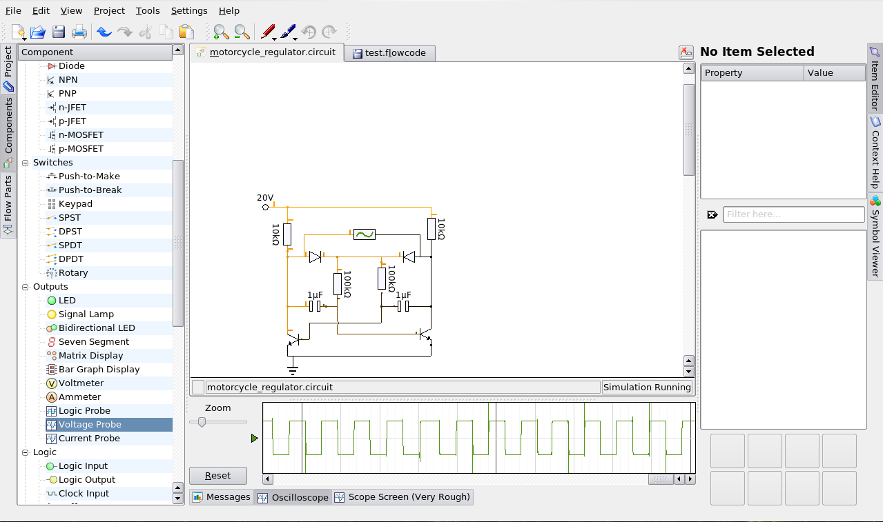 Using KTechlab to simulate a Transistor Multibrator, the circut is traced using KTechlab's internal Oscilloscope